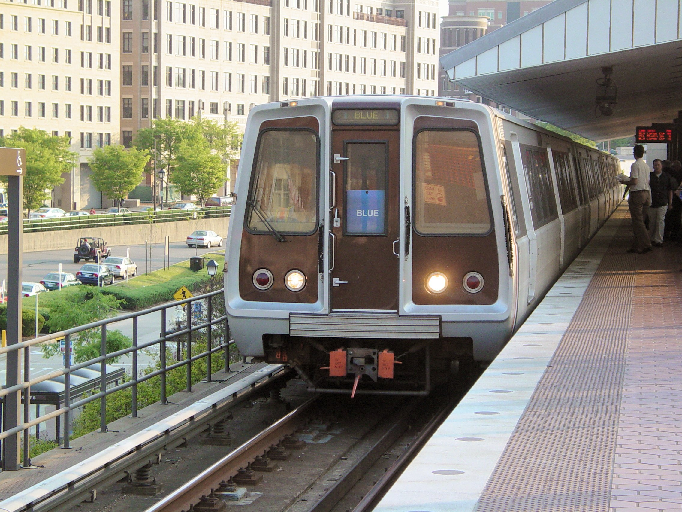 An inbound Blue Line train of Breda 4000-series cars arrives at the King Street station platform. Photo taken May 11, 2005 by Ben Schumin.